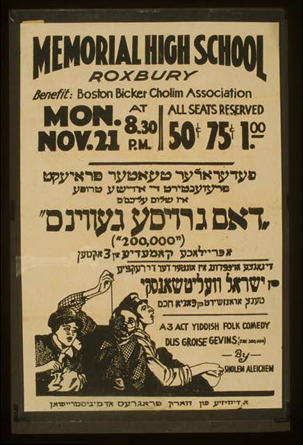 Poster for Federal Theatre Project presentation of "Dus Groise Gevins" at Memorial High School, Roxbury, Mass., showing three men sewing.